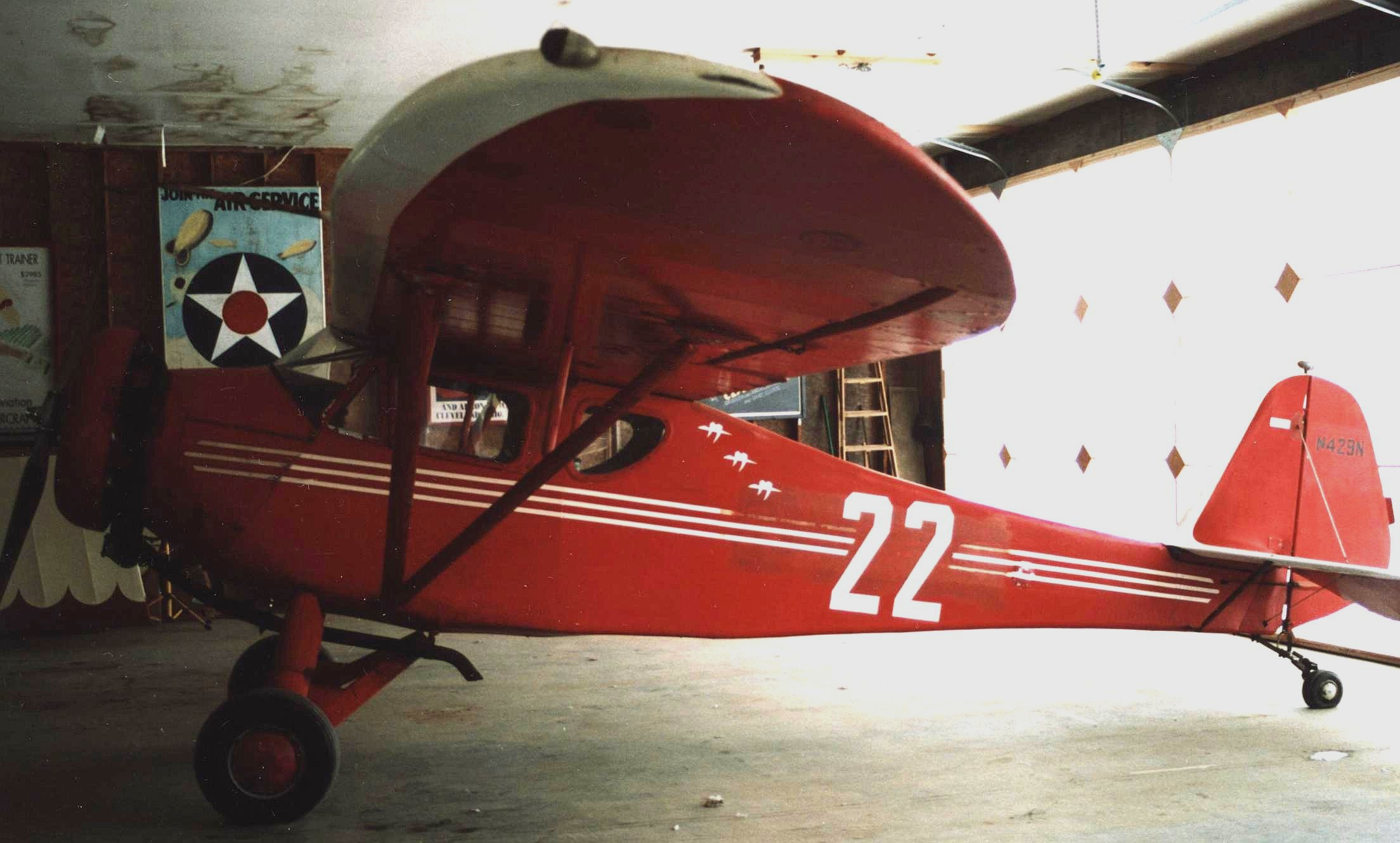 Monocoupe 90 light aircraft of 1931 at Rhinebeck Aerodrome, New York State